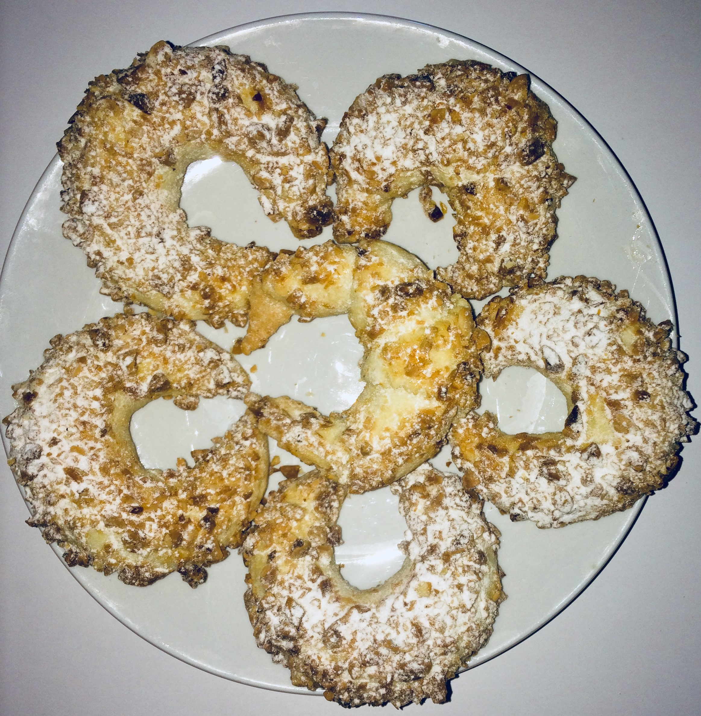 Traditional algerian pastry "Tcharek el ariane" (lit. naked Tcharek).